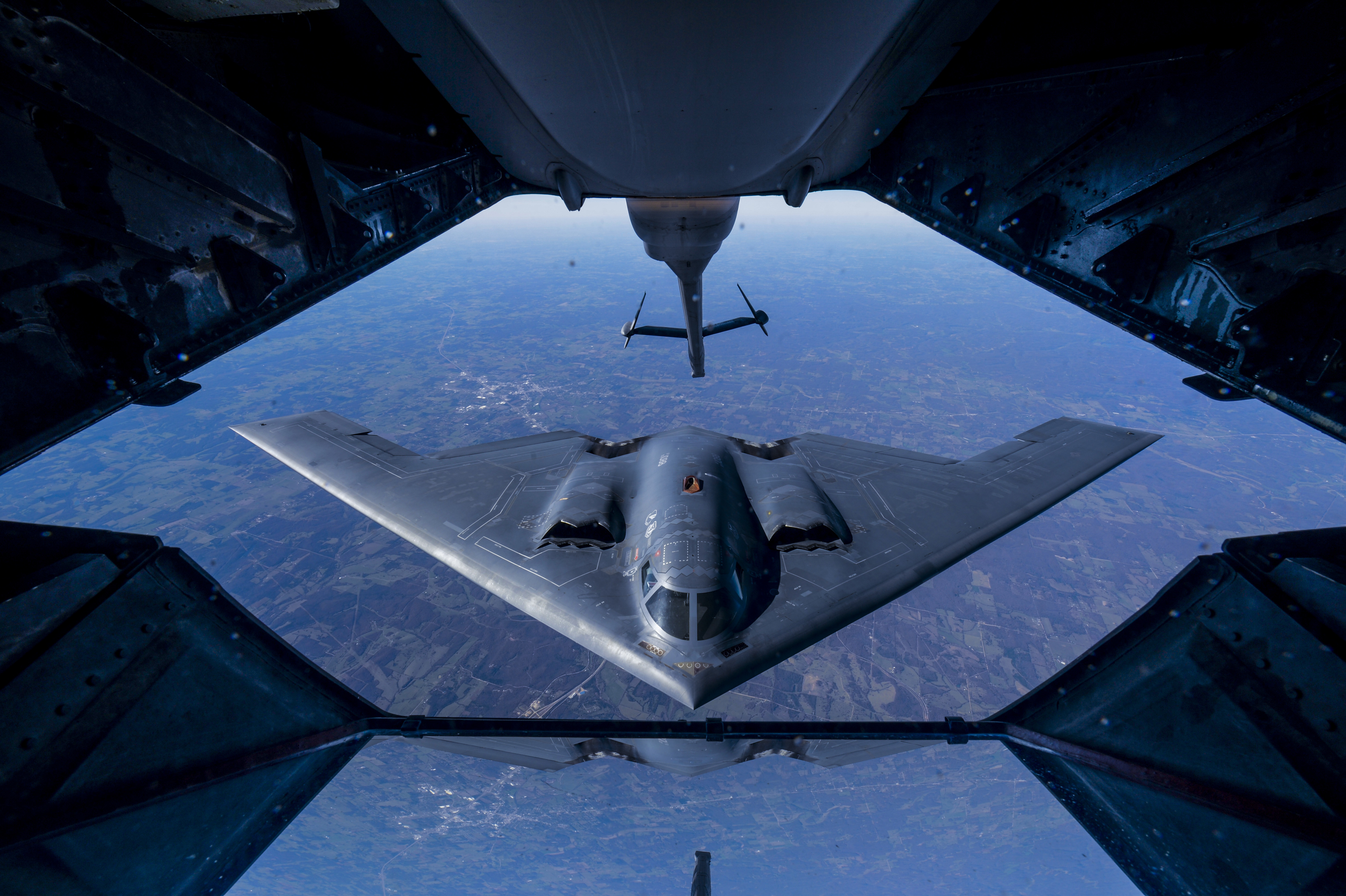 A 2nd Air Refueling Squadron KC-10 Extender from Joint Base McGuire-Dix-Lakehurst, N.J., prepares to refuel a B-2 Spirit, during a training exercise near Kansas, Nov. 10, 2016. The KC-10 Extender is an Air Mobility Command advanced tanker and cargo aircraft designed to provide increased global mobility for U.S. armed forces. Although the KC-l0's primary mission is aerial refueling, it can combine the tasks of a tanker and cargo aircraft by refueling fighters and simultaneously carry the fighter support personnel and equipment on overseas deployments. (U.S. Air Force photo by Senior Airman Keith James/Released) Unit: 3rd Combat Camera Squadron DVIDS Tags: B-2; KC-10; Air refueling; Aircraft; Air Force; AMC; USAF; Air power; boom; Air superiority; 2nd AFS; air fueling squadron; DVIDS Photos of the Day 122316